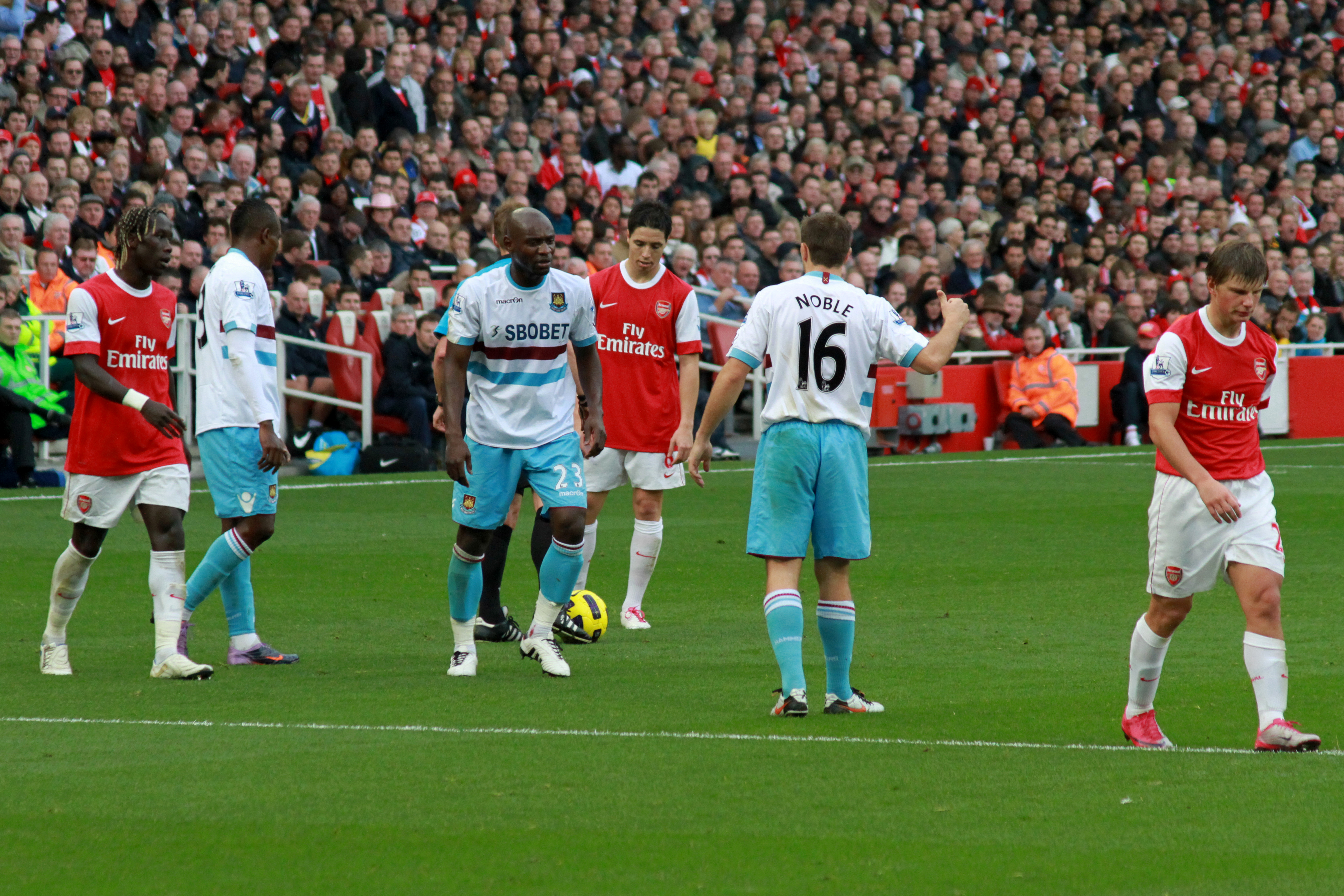 Samir Nasri waiting to take a free kick. Arsenal v West Ham United at the Emirates Stadium on 30 October 2010. Arsenal won 1-0 with a late 88minute goal by Alex Song.